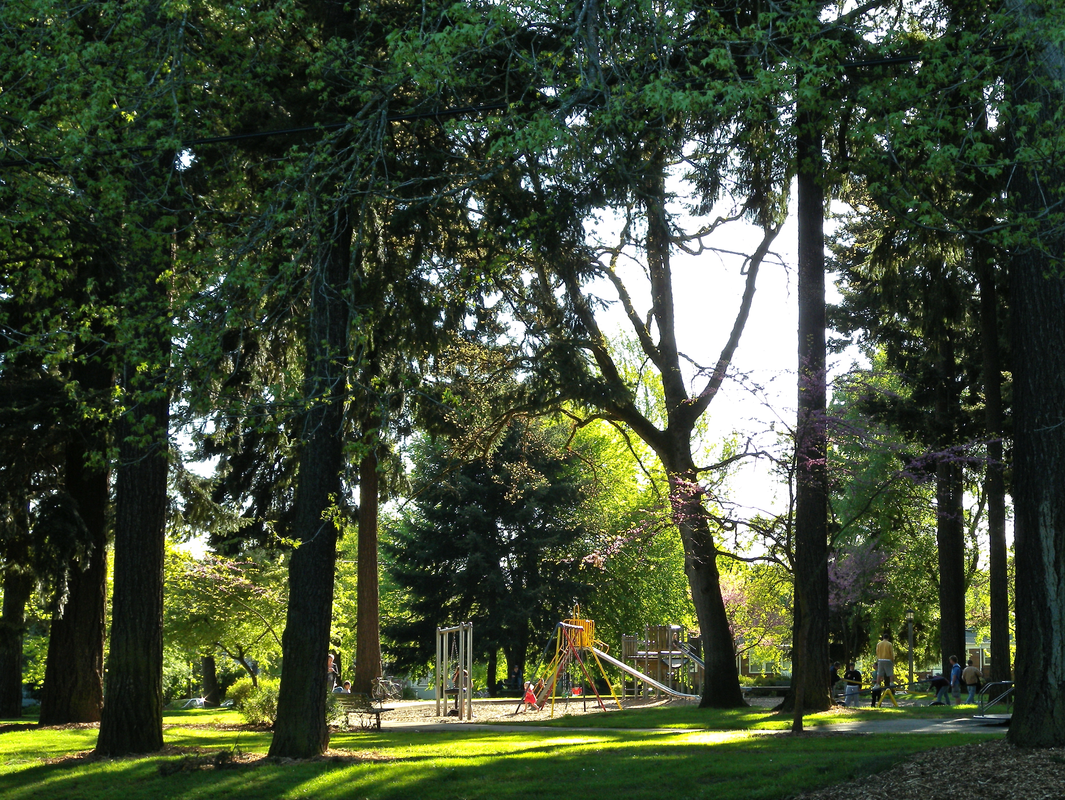 Oregon Park, one of the many parks in Portland, Oregon. Playground equipment, and children playing. Tall trees, and late evening sun.